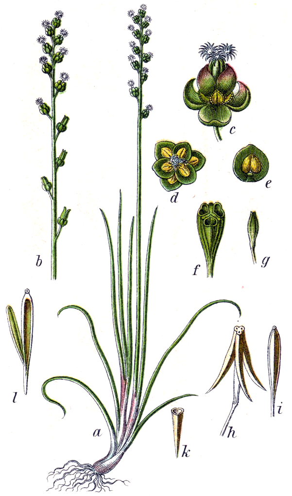 FloraWeb.de, : Triglochin palustre L. : Triglochin palustris L. Original Description Echter Dreizack, Triglochin palustre